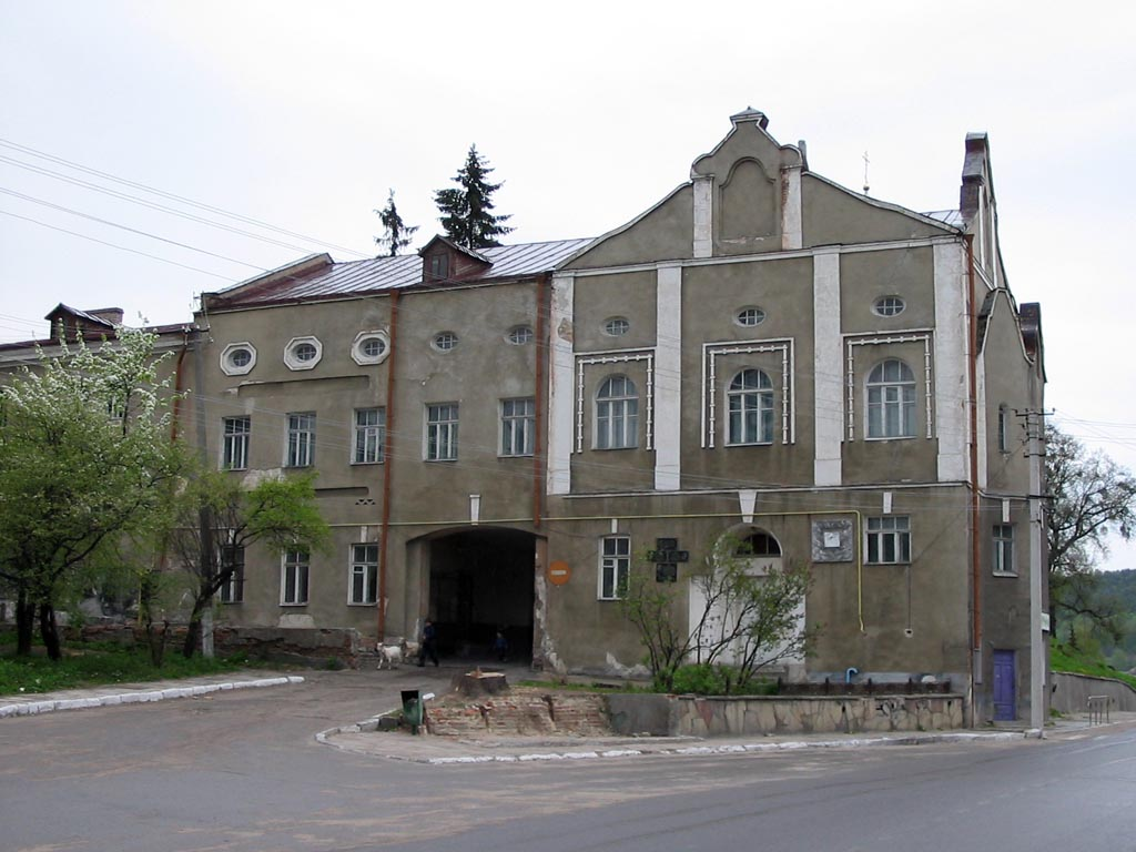 The Museum of Local Lore, Kremenets